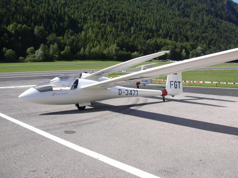 Two Schempp-Hirth Discus in Unterwössen